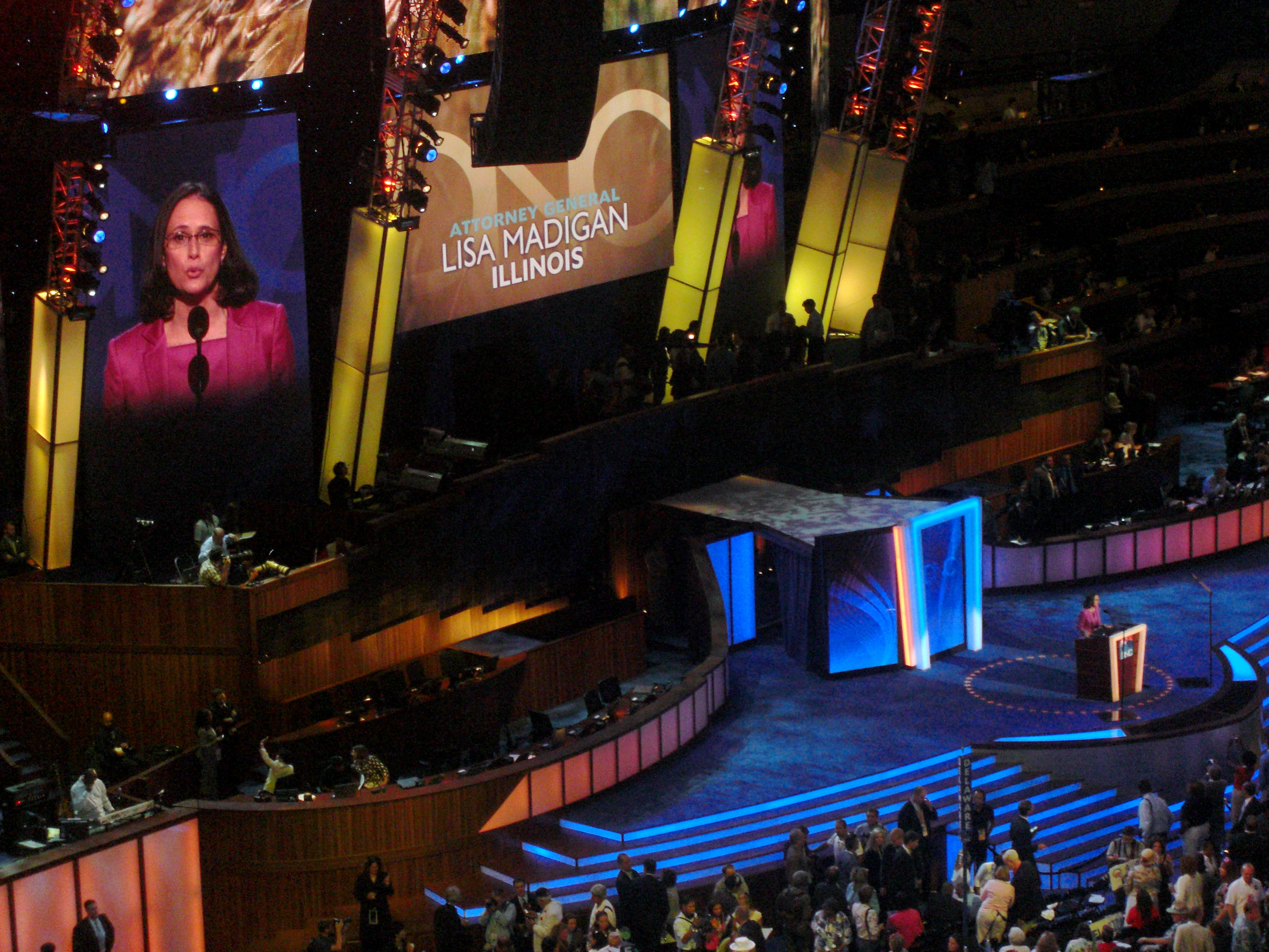 Illinois Attorney General Lisa Madigan speaks at the 2008 Democratic National Convention in Denver, Colorado.